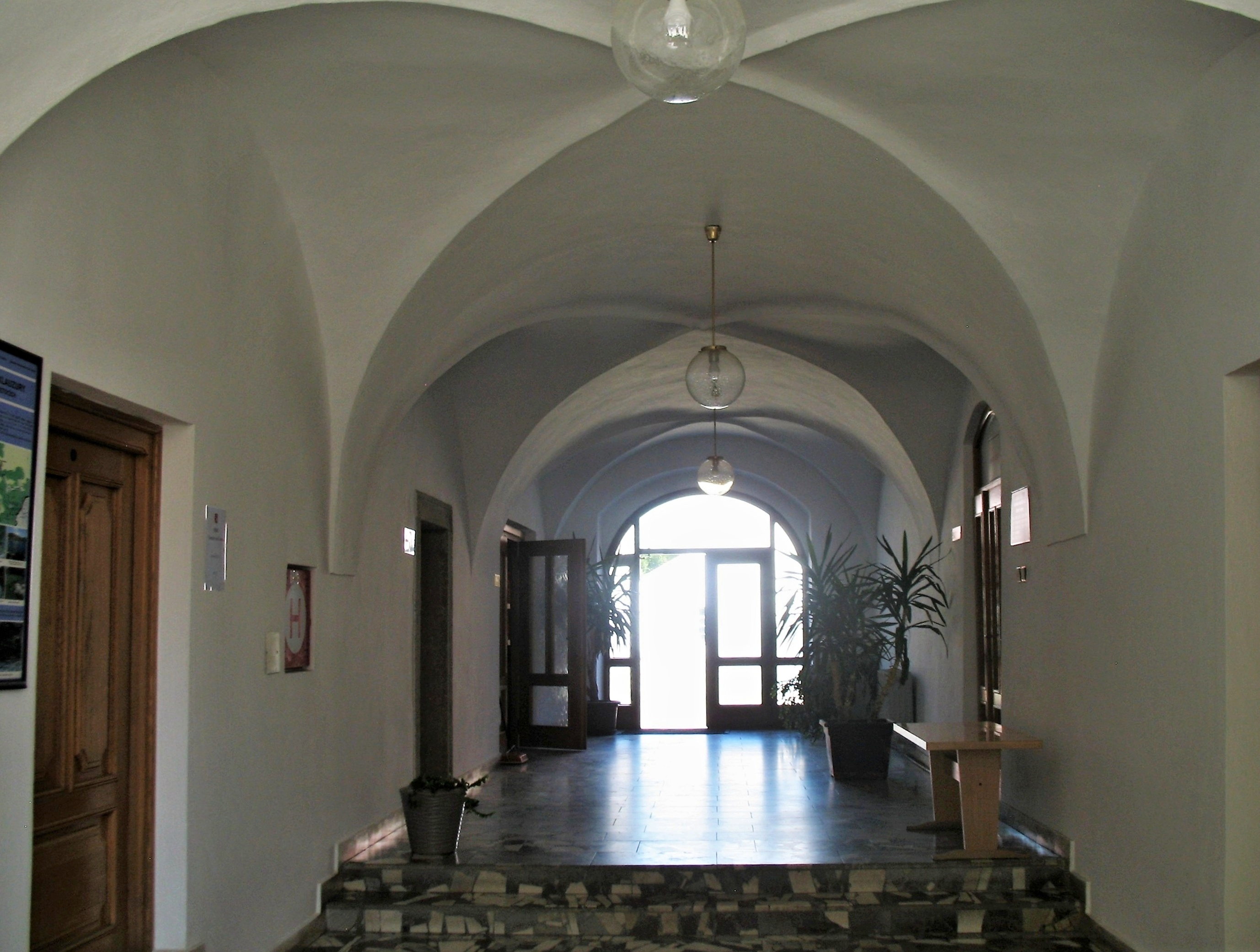 Town Hall in Benešov nad Černou, Český Krumlov District